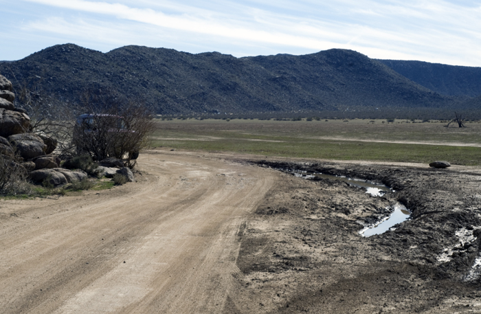 Environmental damage caused by vehicle drivers not using established roads